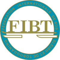 The logo for FIBT